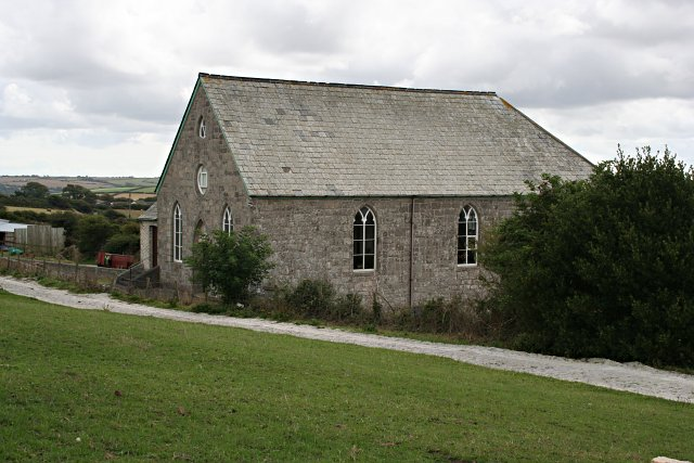 Trethosa Chapel. This chapel contains a memorial to the poet and writer Jack Clemo. Viewing is by appointment only.